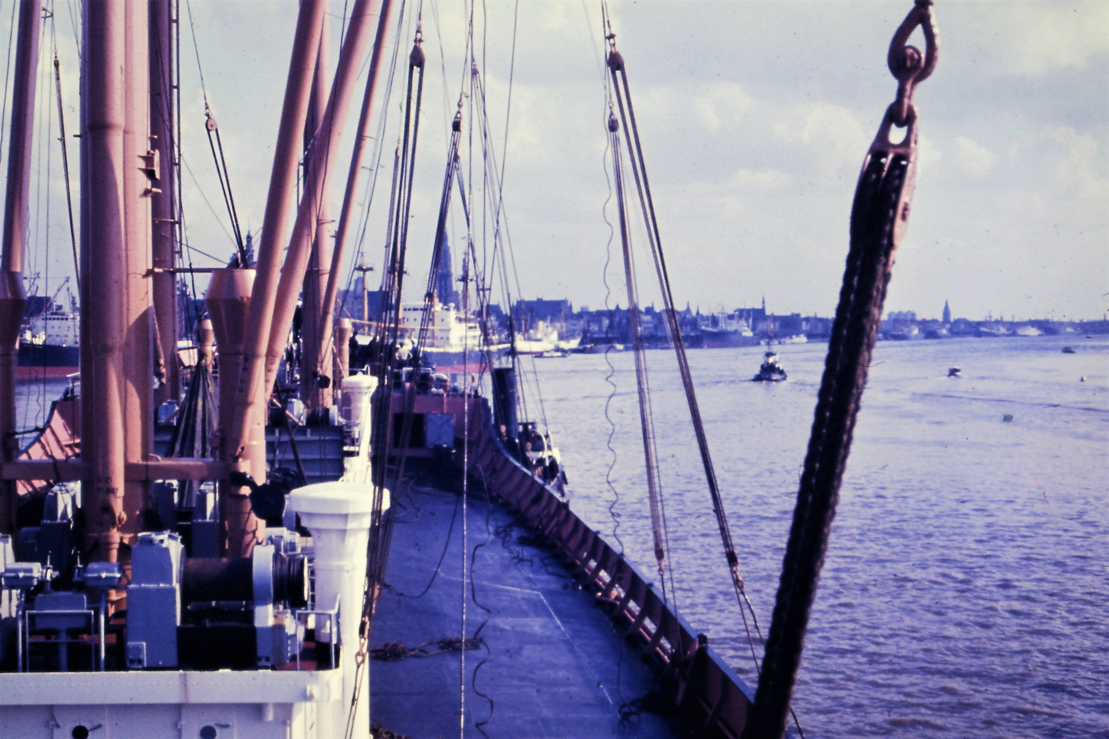 TS Havelstein NDL - Incoming Antwerp, Scheldekaai 1962-63